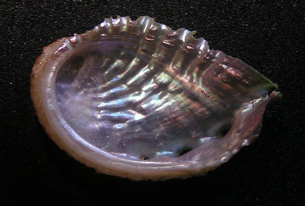 Haliotis jacnensis L. A. Reeve, 1846, an abolone in the family Haliotidae